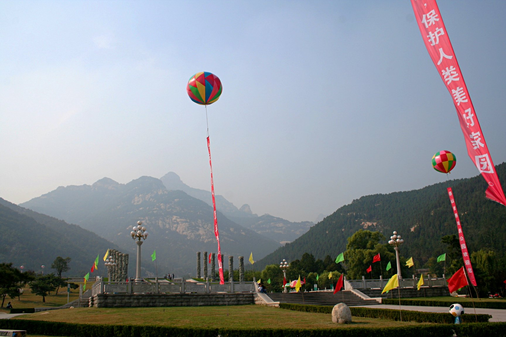 The public park at the foot of Ta'shan—Mount Tai, Shandong Province, eastern China.